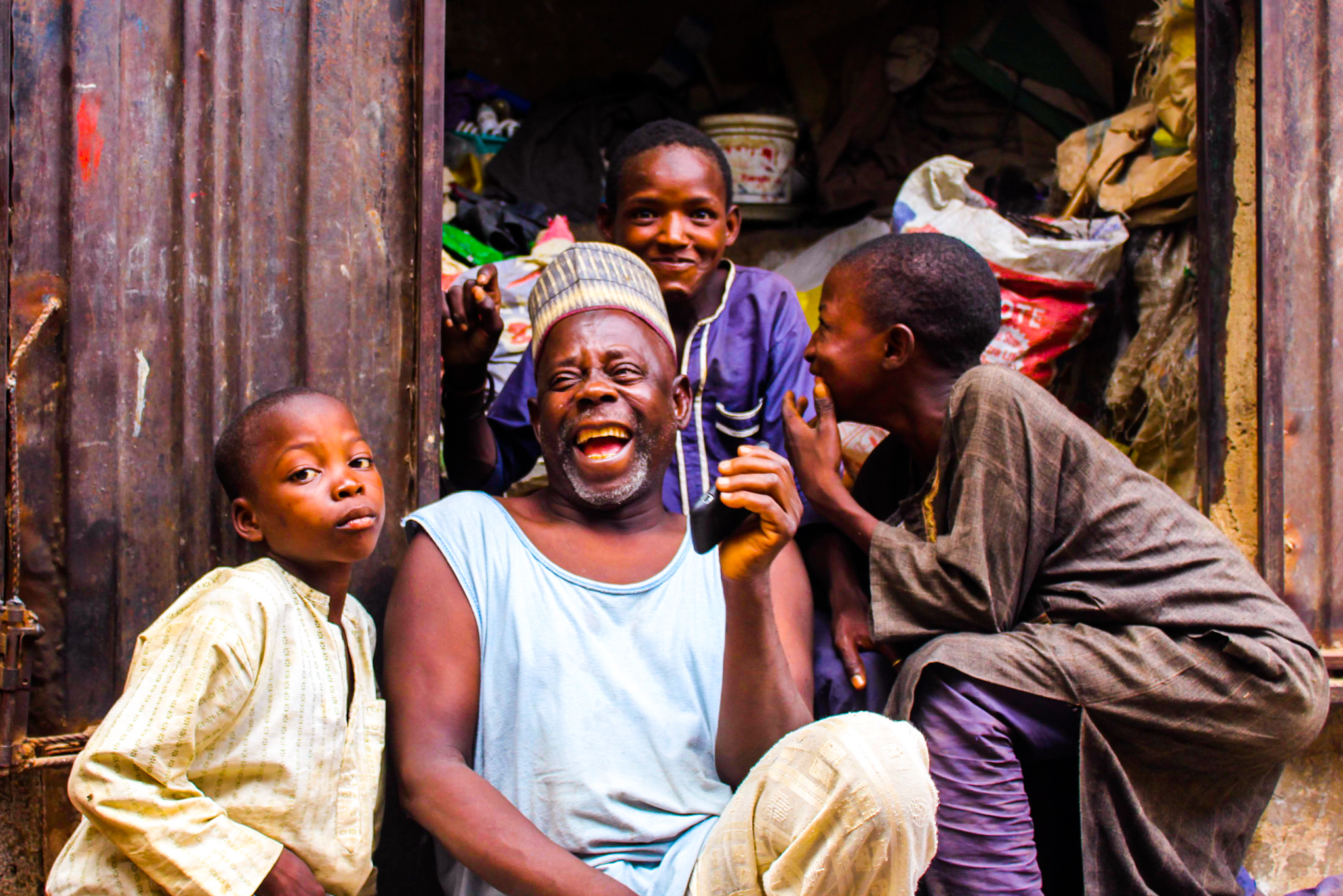 In a marketplace in Kano Nigeria, children play with their grandfather. The unlikely source of this joy is a mobile phone. The strange thing here is that the grandfather barely speaks any English; the phone is owned by the Grandfather but operated by the children. This is an image with the theme "Play" from: Nigeria